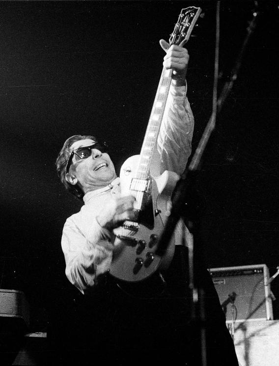 Vooruit - Ghent - 1983